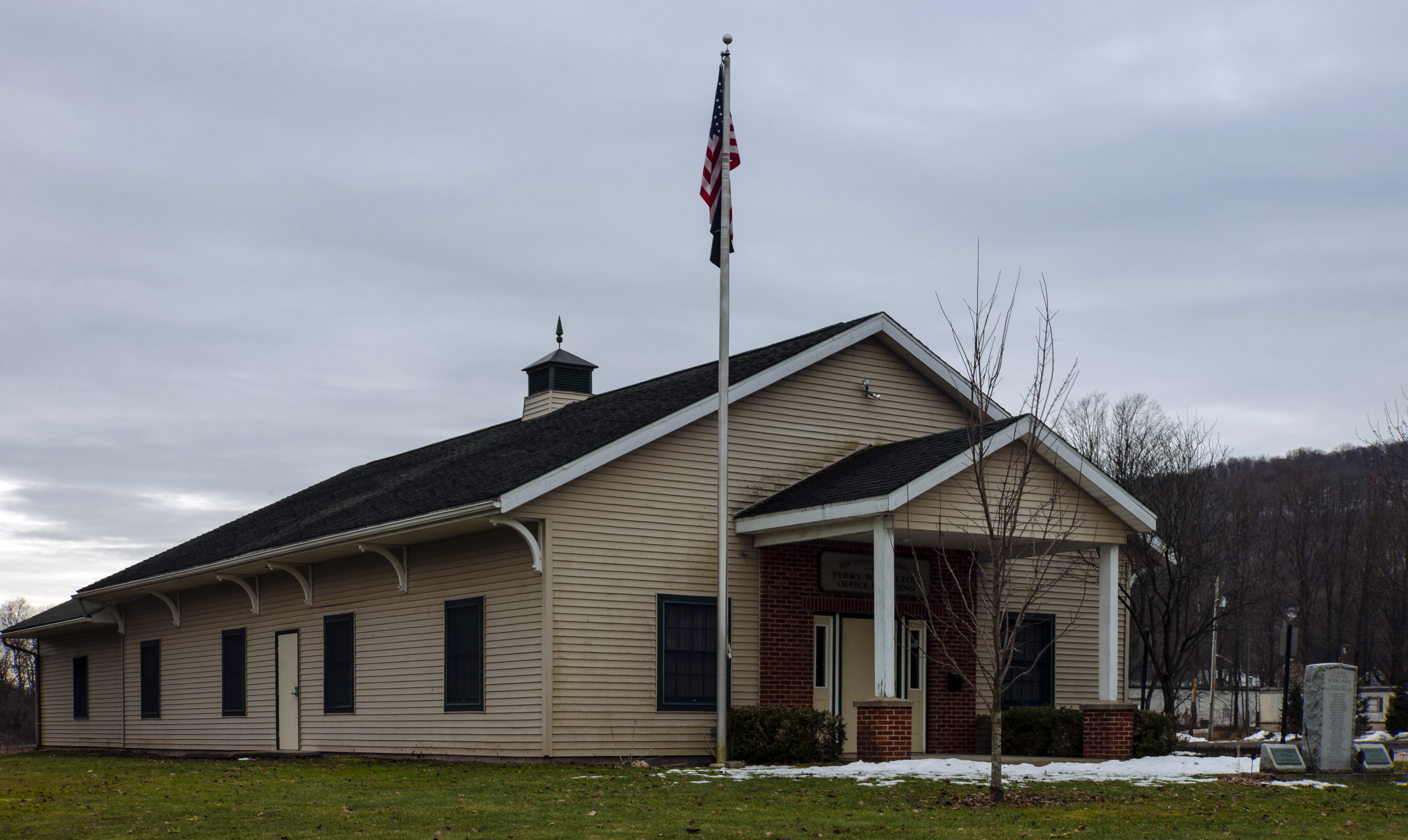 Town hall, Tompkins, NY, USA, located in the hamlet of Trout Creek